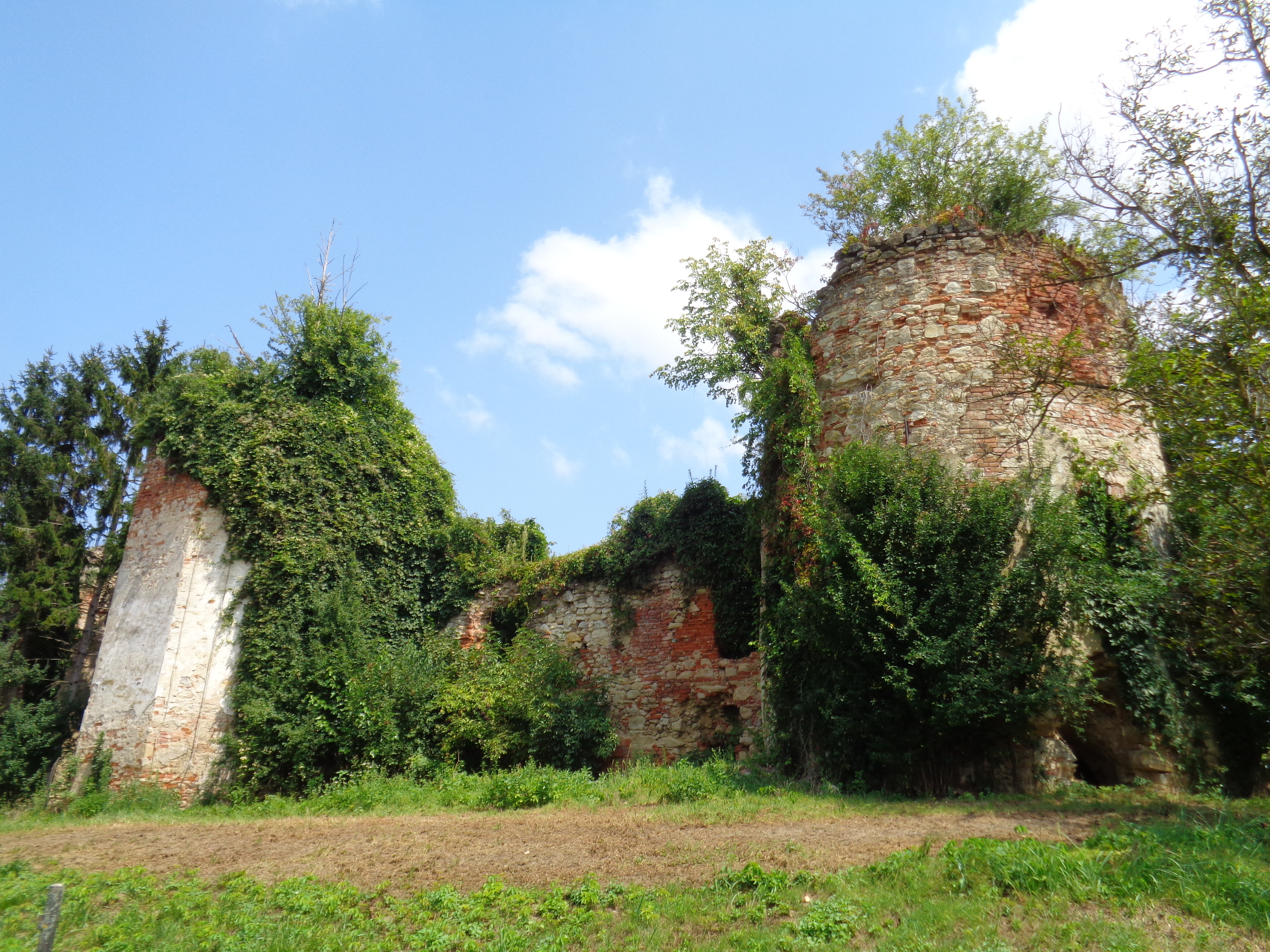 Bisag Castle in Bisag village, Varaždin County, Croatia - southwest view